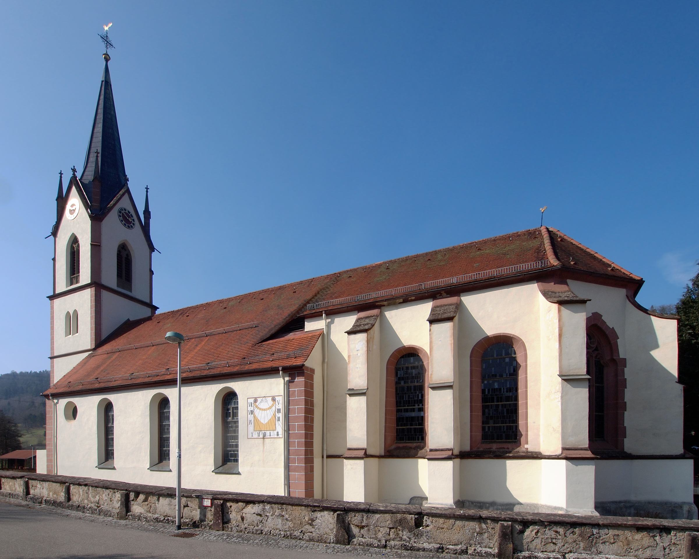 Saint Gallus church in Glatt, Sulz am Neckar, Germany